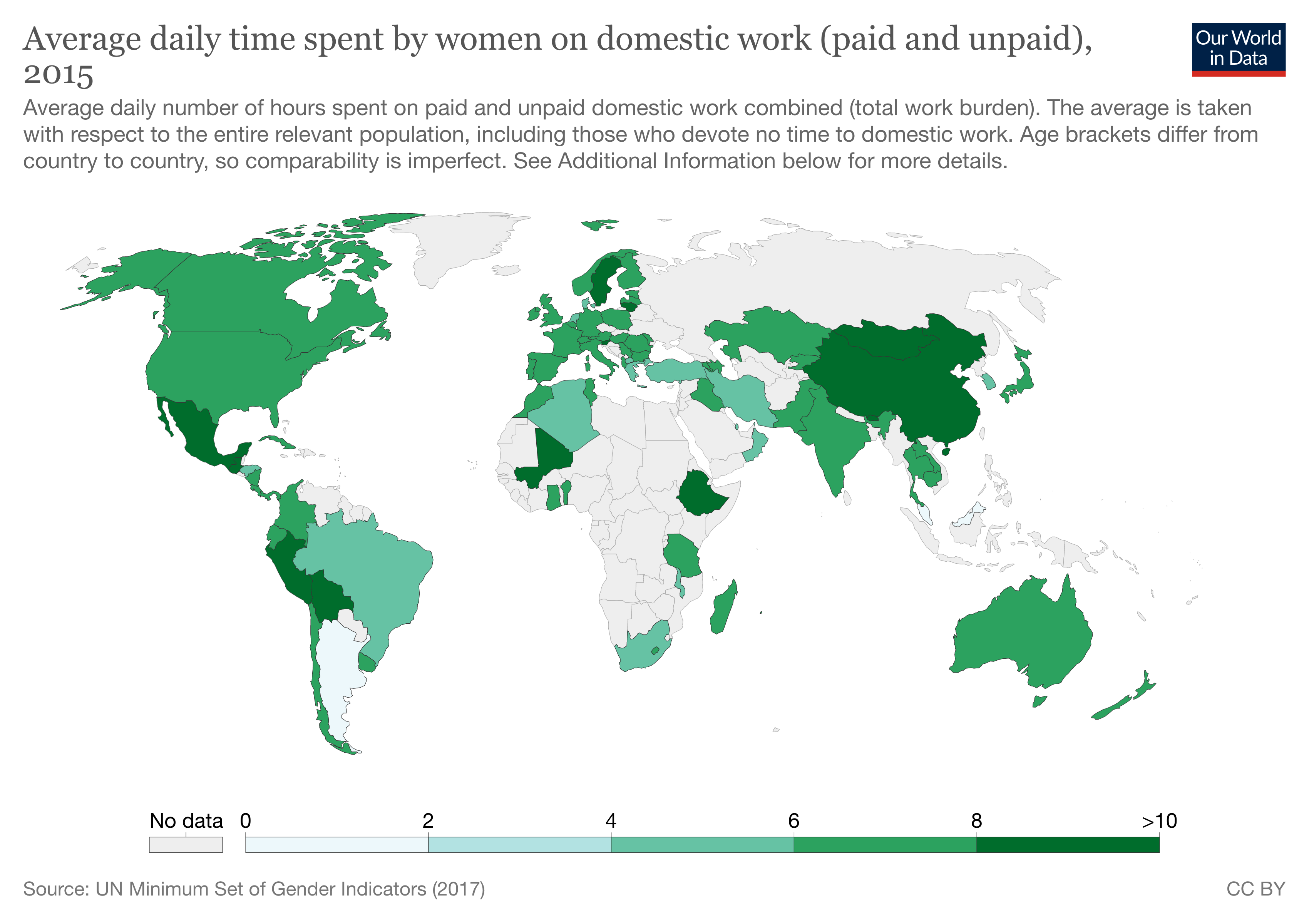 Average daily number of hours spent on paid and unpaid domestic work combined (total work burden). The average is taken with respect to the entire relevant population, including those who devote no time to domestic work. Age brackets differ from country to country, so comparability is imperfect.